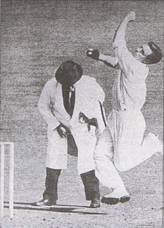 Ray Lindwall, Australian and New South Wales cricketer.